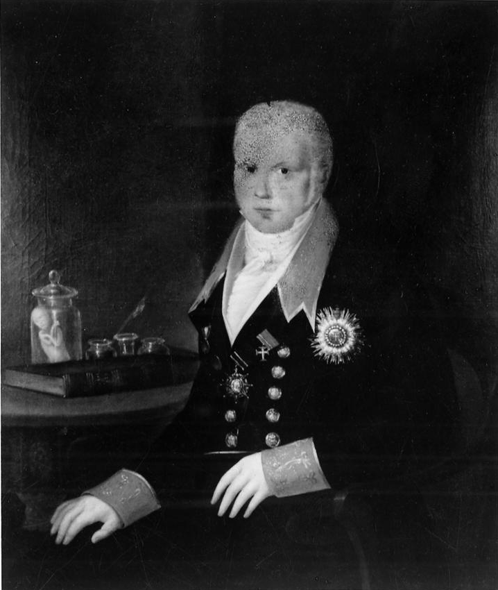 Teodoro Ferreira de Aguiar (1769-1827)